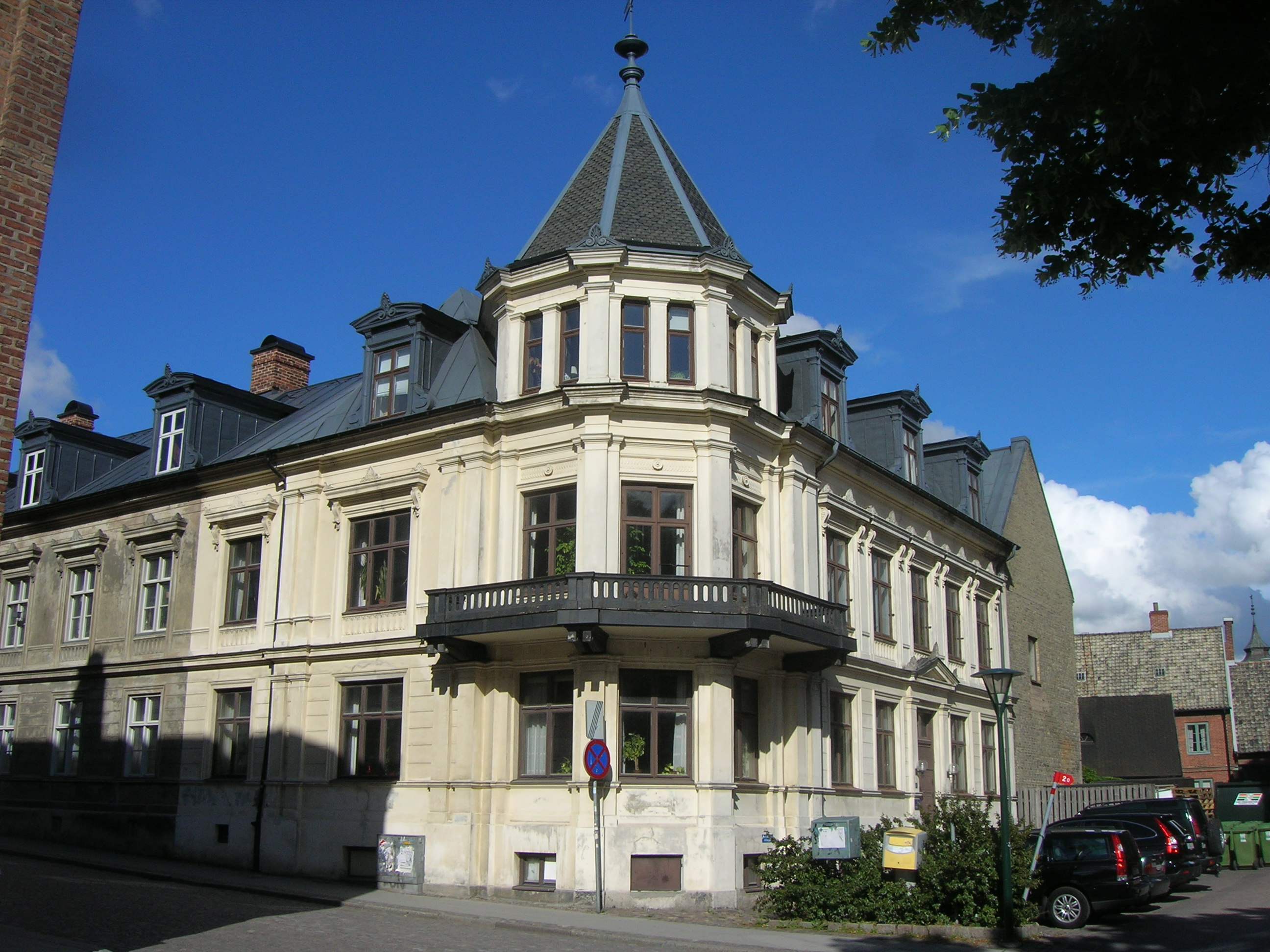 "Palais d'Ask", a building in Lund.